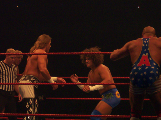 Shawn Michaels, Carlito, Kurt Angle (and also Ric Flair) @ Adelaide, South Australia 'RAW' house show on the 28th of October '05